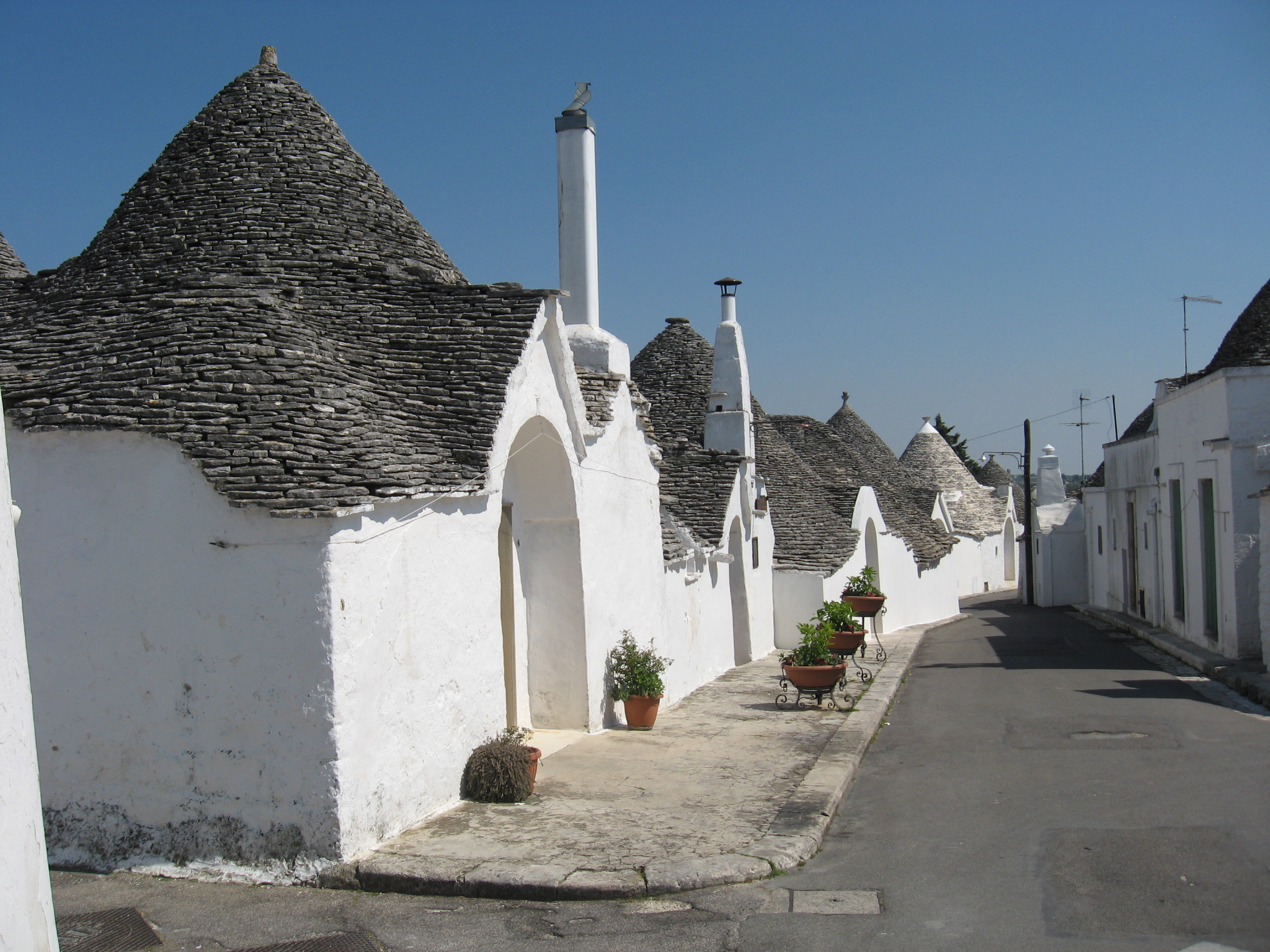 Rione Aia Piccola